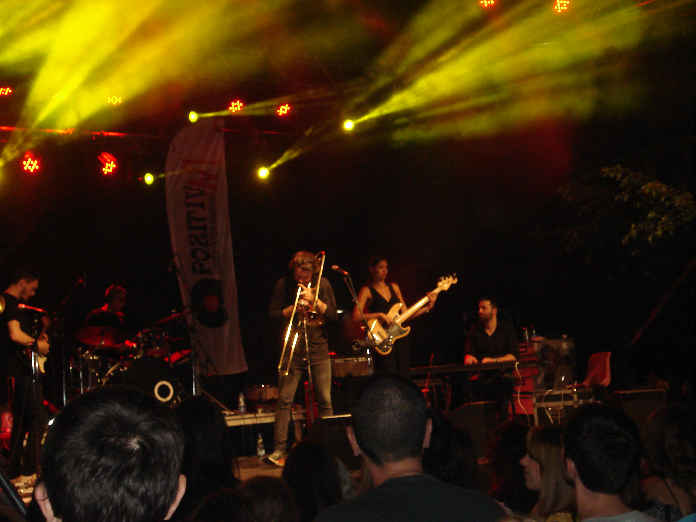 Irie FM, Pozitivni festival NIs 2018. 02